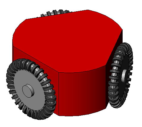 schematic drawing of an autonomous robot with an omnidirectional drive based on three omni-wheels.